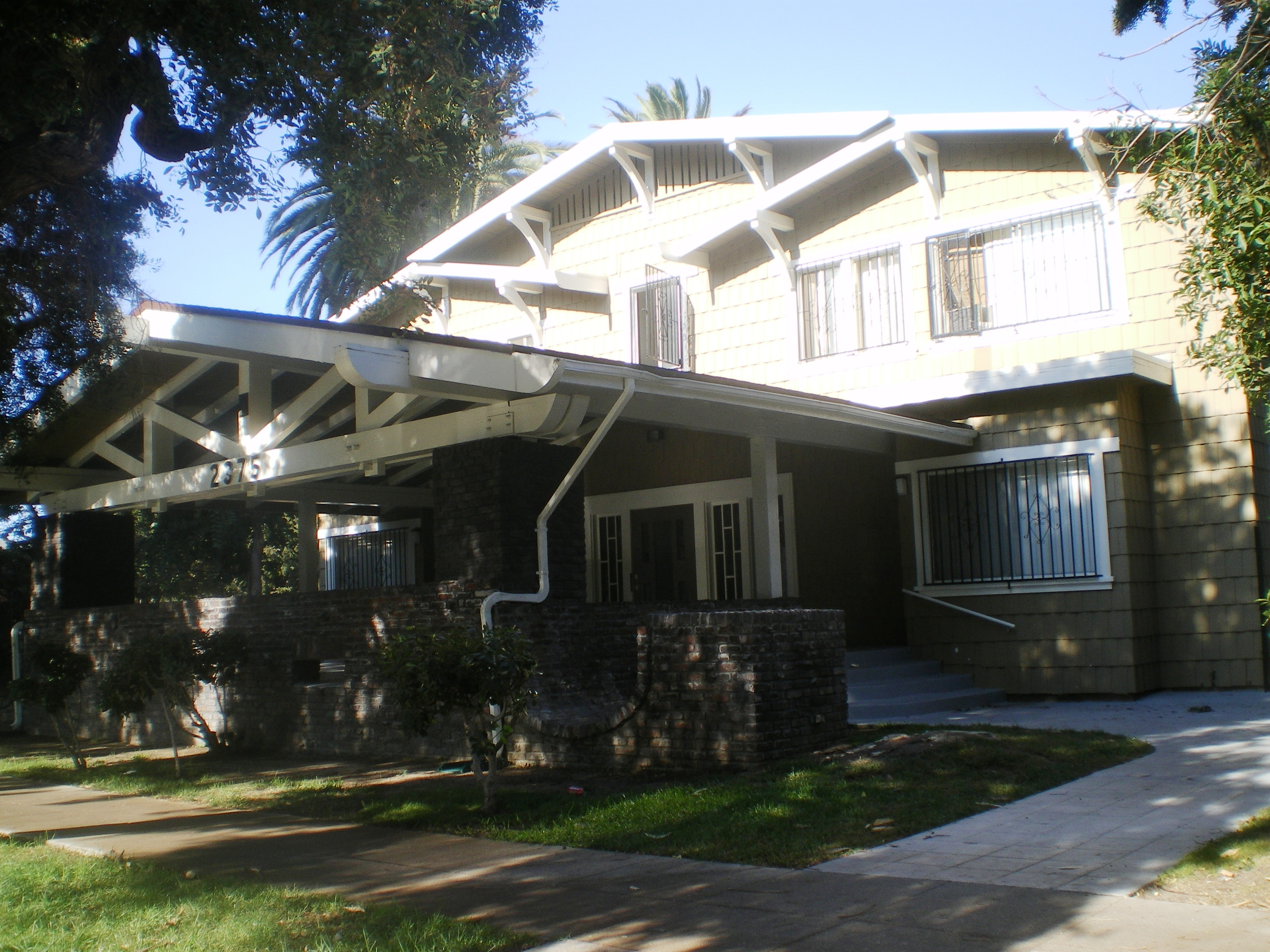 Chalet Apartments, 2375 Scarff St., West Adams, Los Angeles, California (HCM #467)